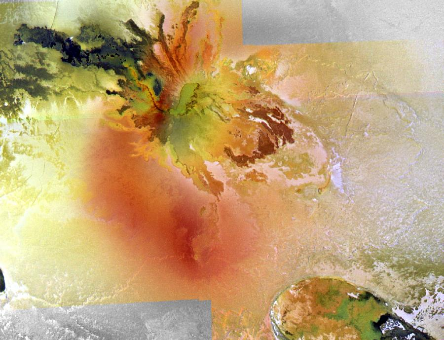 This image is a mosiac of Culann Patera, an area of heavy volcanism on the moon Io, taken by NASA's Galileo spacecraft. At the time it was taken, this series of images was the best, high-resolution, colour view of Io that has been returned by Galileo. The picture is an enhanced combination of red, green and violet filters from Galileo's camera, and has a resolution of about 200 meters (or yards) per picture element. North is to the top.